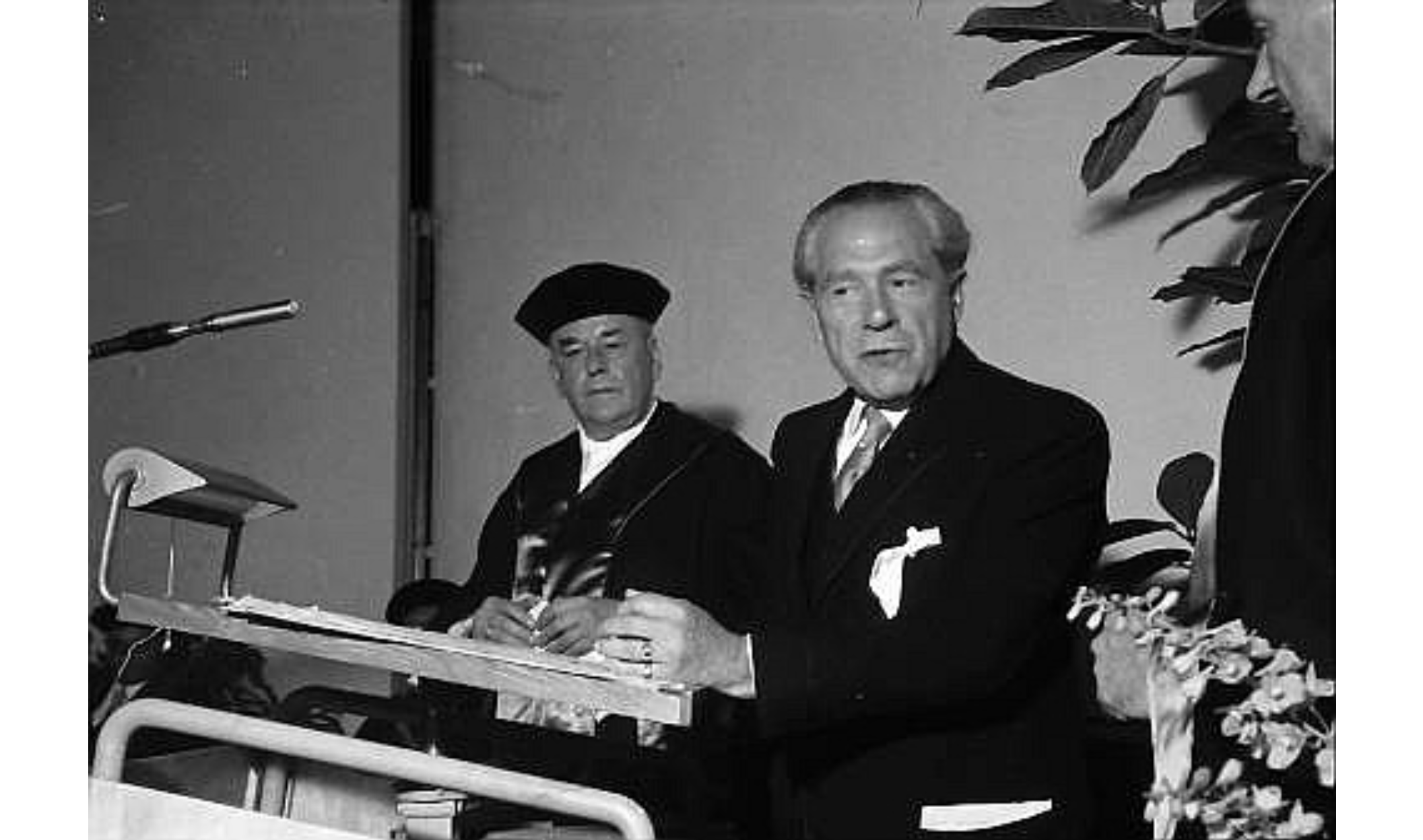 Dr. Ludwig Strecker, librettist and head of Schott music company, 1957.06.24 in Freiburg